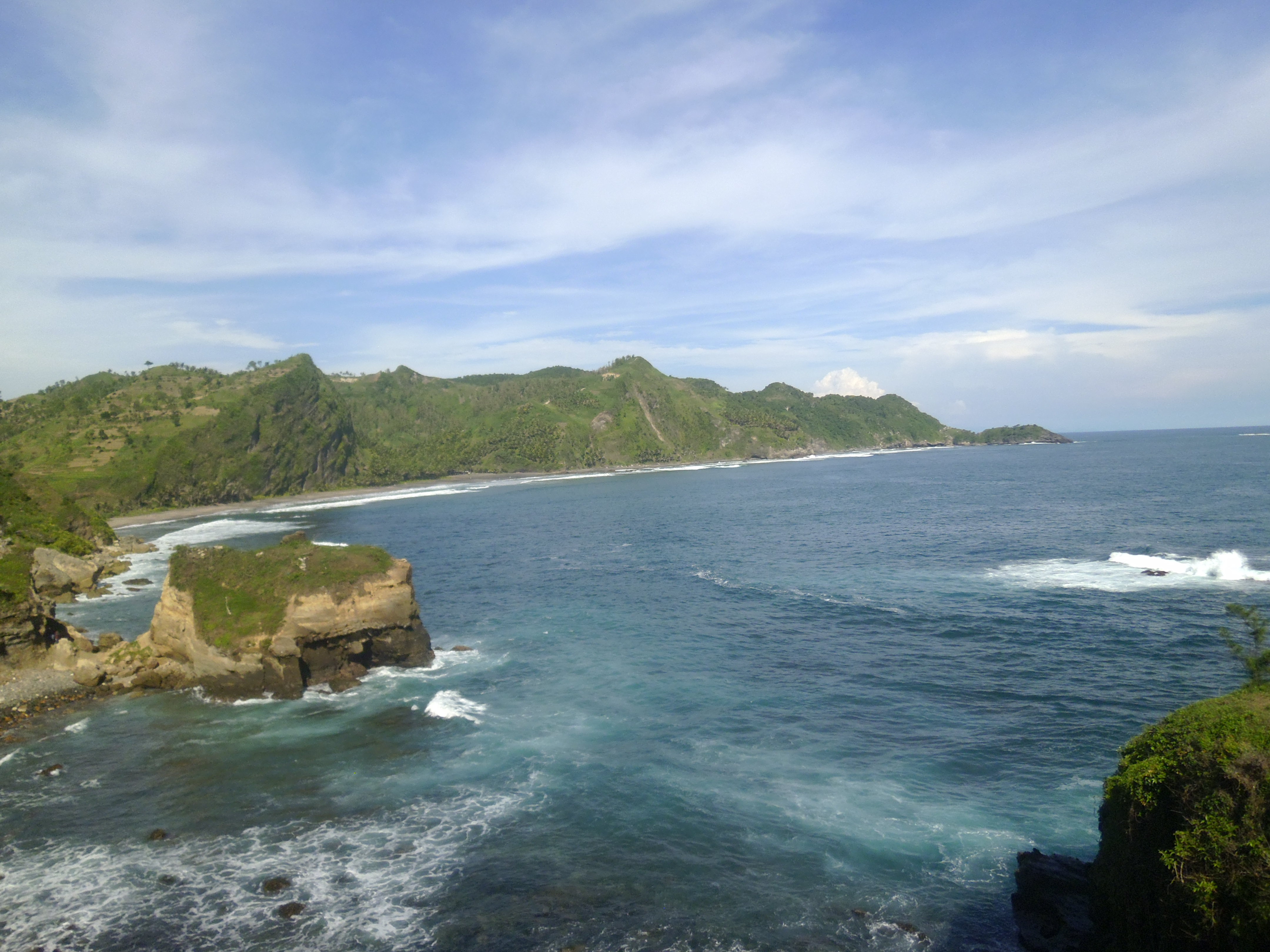 Menganti Beach is an exotic place to enjoy a tropical sunset in the Indian Ocean.